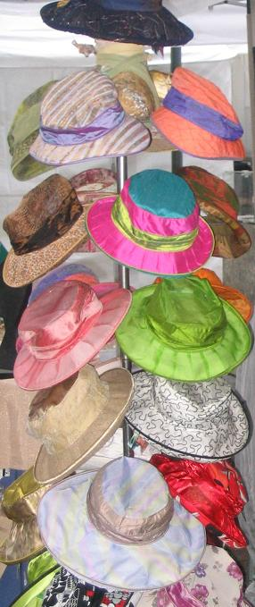 Photo by Quadell